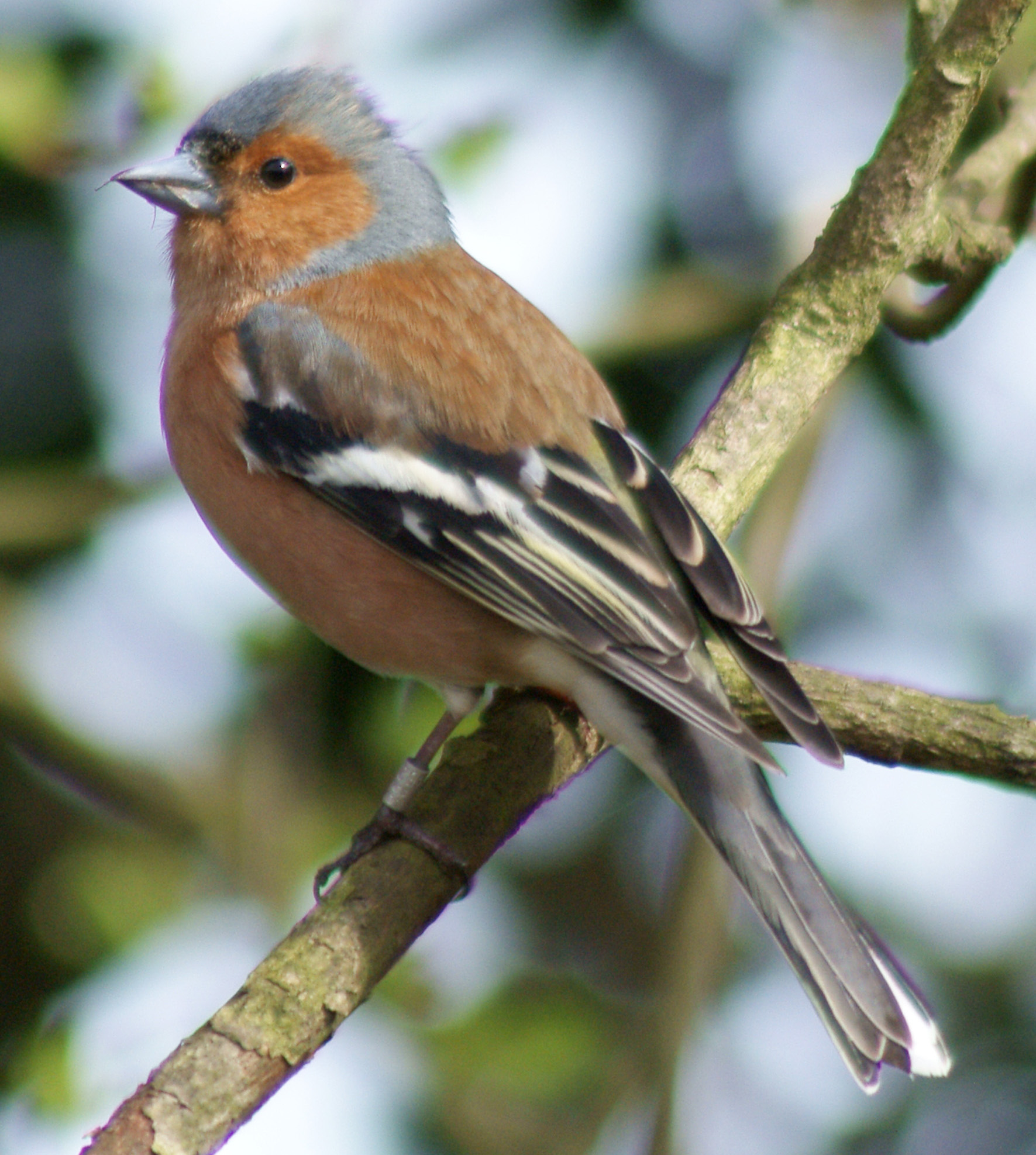 Fringilla coelebs - Chaffinch